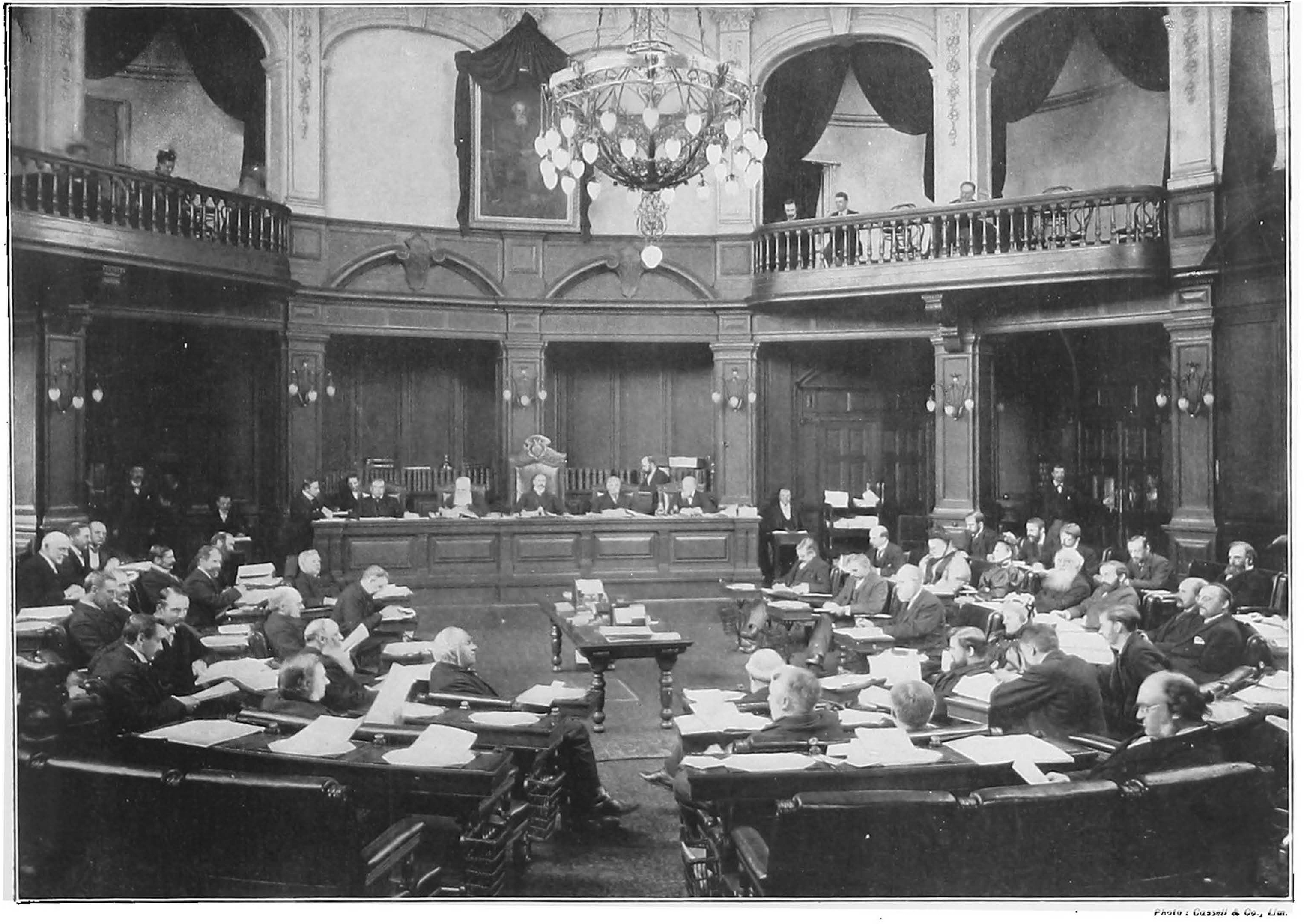 THE LONDON SCHOOL BOARD IN SESSION. By far the most important elected authority dealing with education in the Empire is the London School Board Elected by the ratepayers of the vast metropolis, it is charged with the administration of a budget which has now reached an annual figure of £3,500,000. The 464 schools which it controls are attended by 527,400 children. In the present picture the Marquis of Londonderry, formerly Lord Lieutenant of Ireland, is presiding. It cannot be denied that the London School Board has been a great success, and has contributed enormously to the educational advancement of London. Like other great institutions, it is happiest when it has no history, and it is only on the rare occasions when it has abandoned itself to sectarian controversy that it has lost for a time the confidence and sympathy of those who elect it.